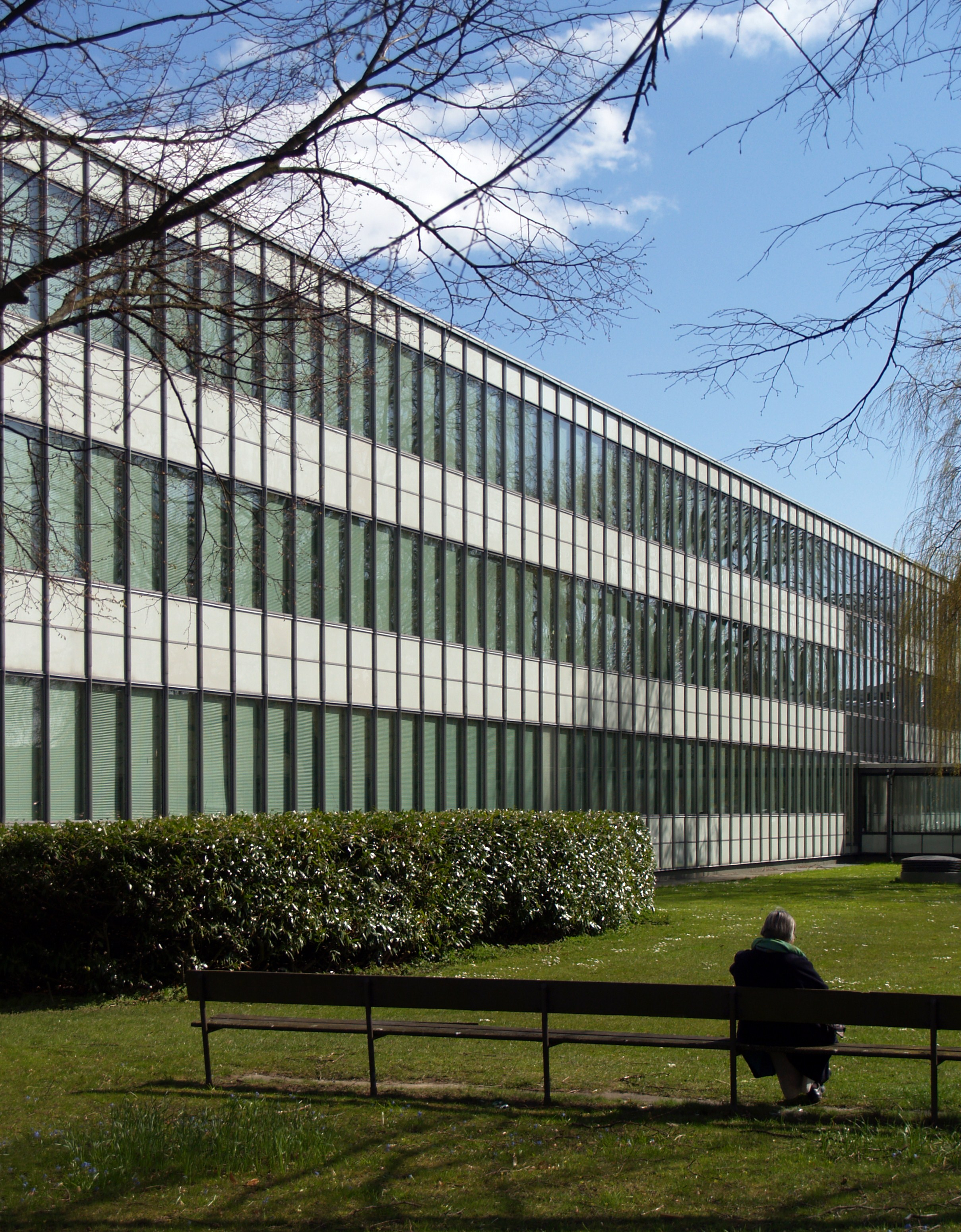 rødovre town hall, built 1952-1956. architect: arne jacobsen, 1902-1971.